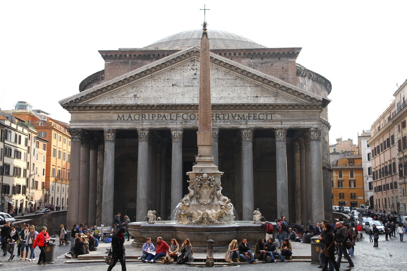 Pantheon and Fontana del Pantheon